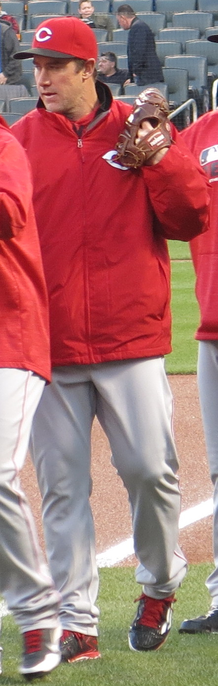 Ross Ohlendorf with the Cincinnati Reds, April 27, 2016.